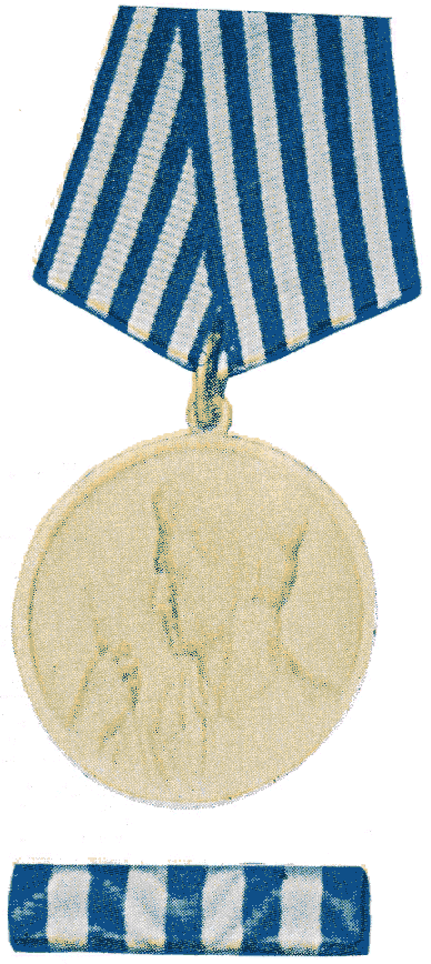 Medal for courageousness